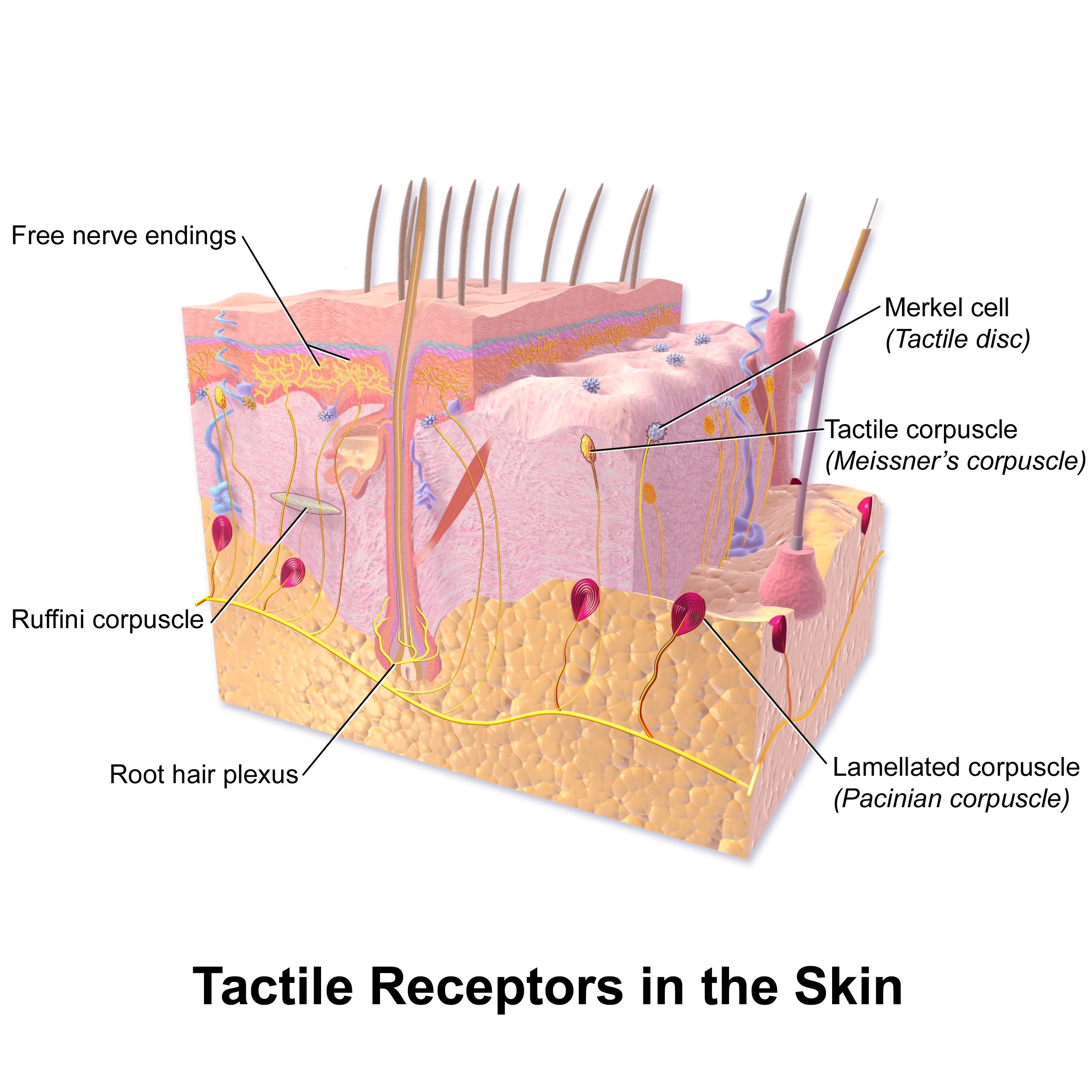 Tactile Receptors. See a full animation of this medical topic.